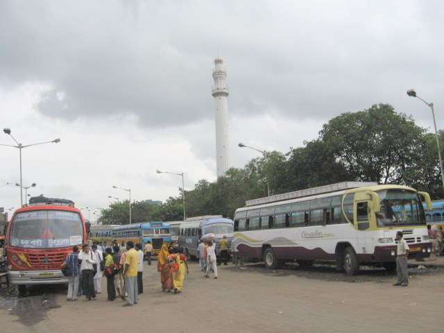 Esplanade Bus Station with Saheed Minar in the background Own photograph